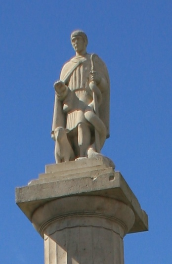 Westport, County Mayo, Ireland Statue of Saint Patrick on top of the octagon in Westport. The statue was crafted by the sculptor Ken Thompson in 1990.